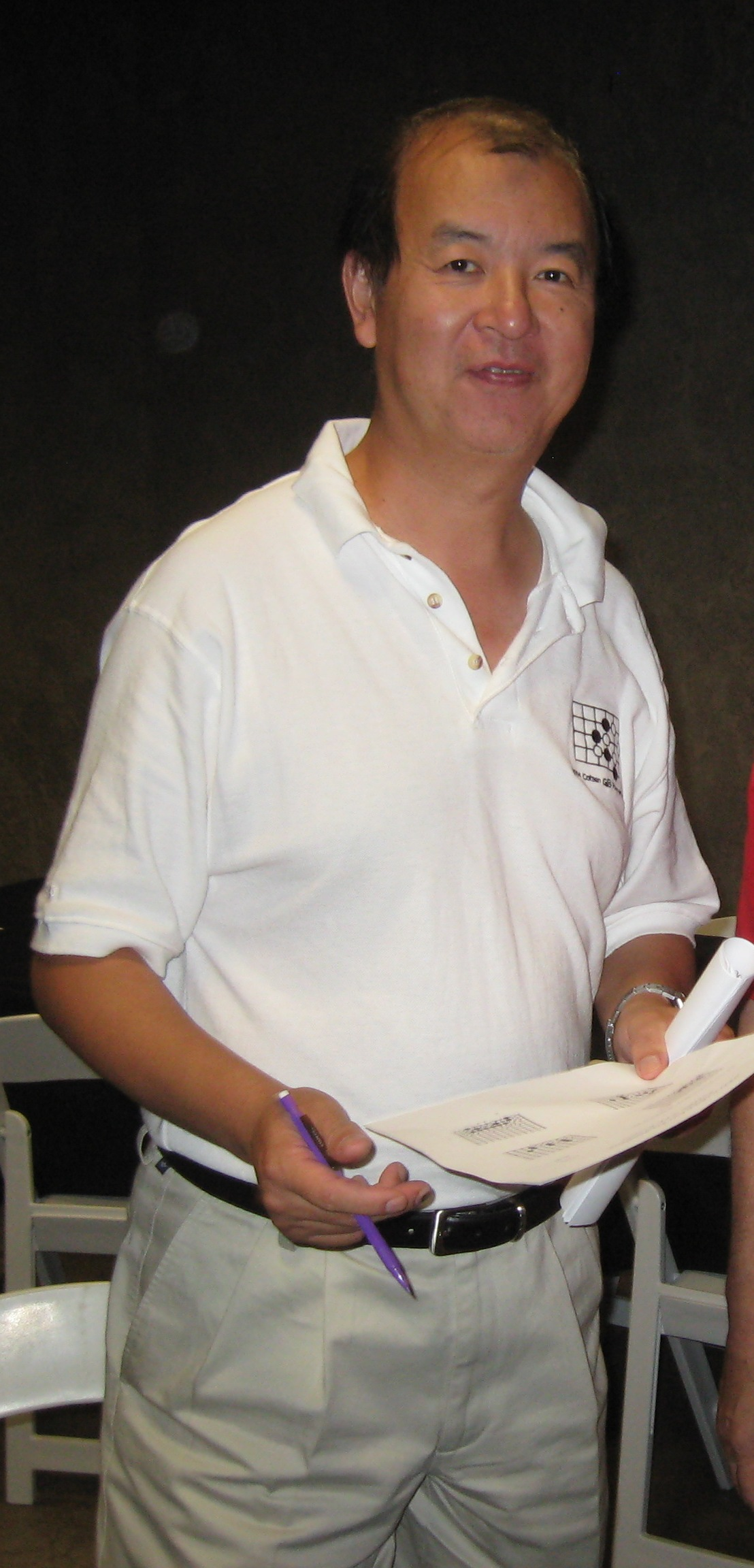 Yi-Lun Yang, professional Go player, at 2009 Cotsen Tournament in Los Angeles, California. (Note: Yi-Lun or Yilun is correct spelling.)